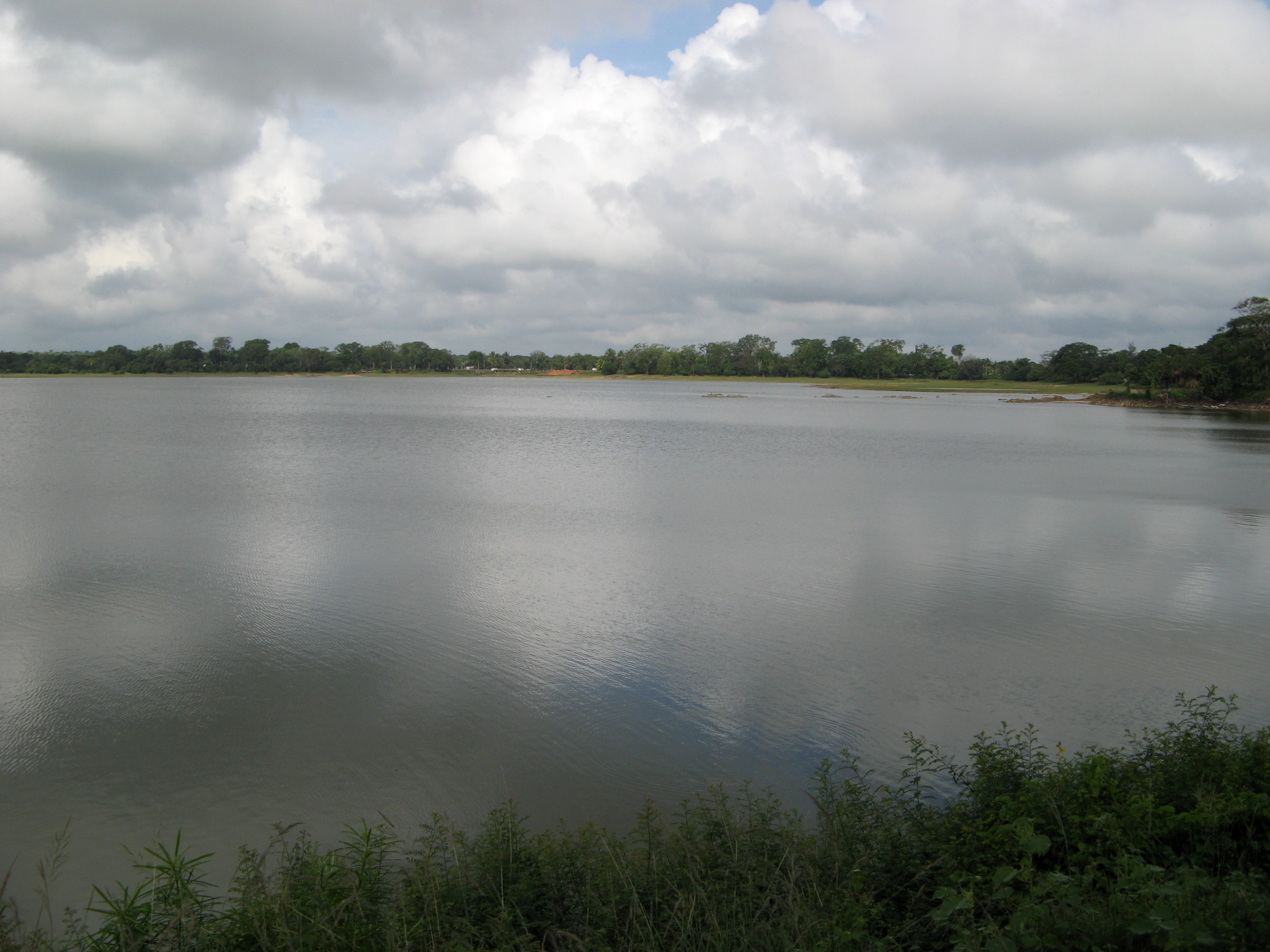 The extensive "lake" in this photograph is actually a man-made reservoir, built by and named after King Devanampiya Tissa - "Lake Tissa," as we would call it.